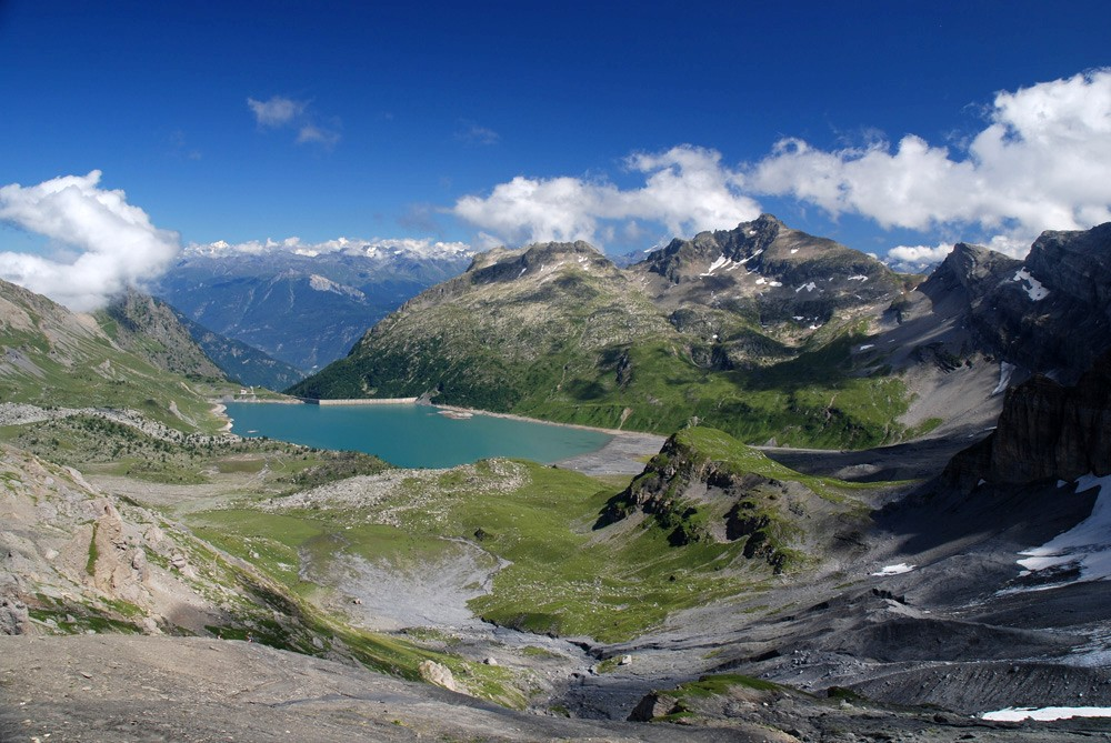 Lac de Salanfe, Suisse